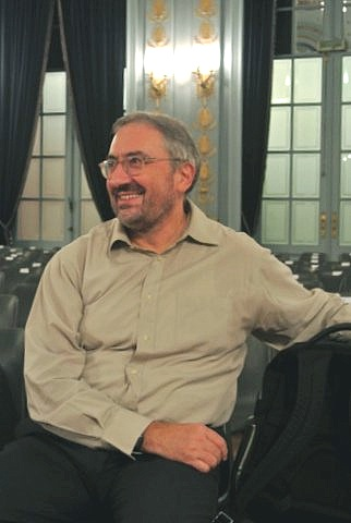 Enrico Gatti, Violonist